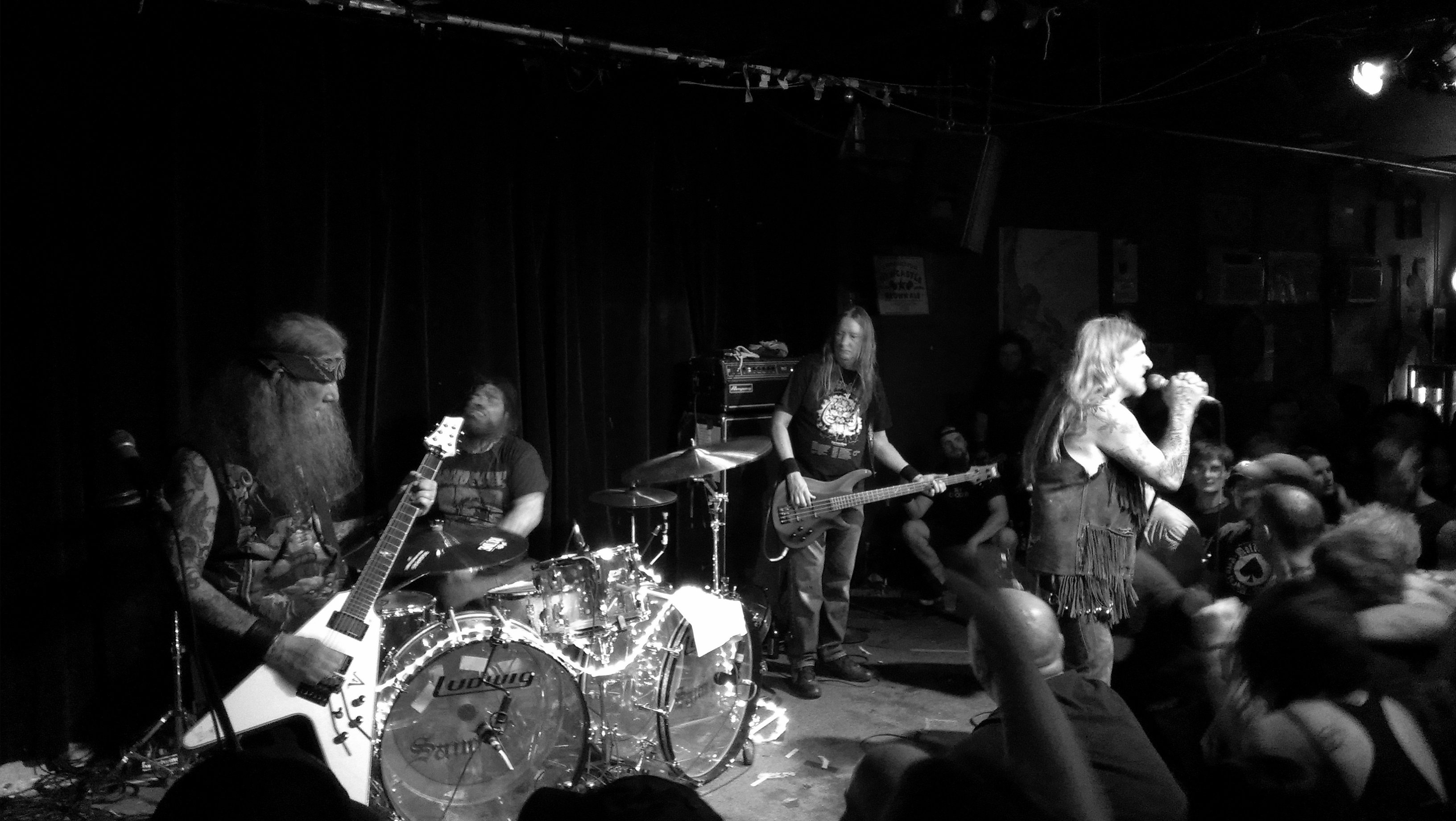 Doom metal band Saint Vitus performing live at Hi-Tone, Memphis.